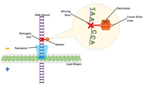 Nanopore detection diagram of DNA damage